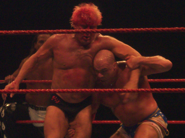 Ric Flair and Kurt Angle (with Shawn Michales) @ Adelaide, South Australia 'RAW' house show on the 28th of October '05